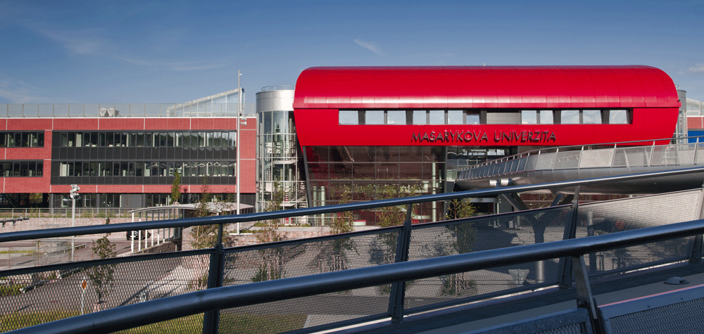 Masaryk University campus in Brno-Bohunice